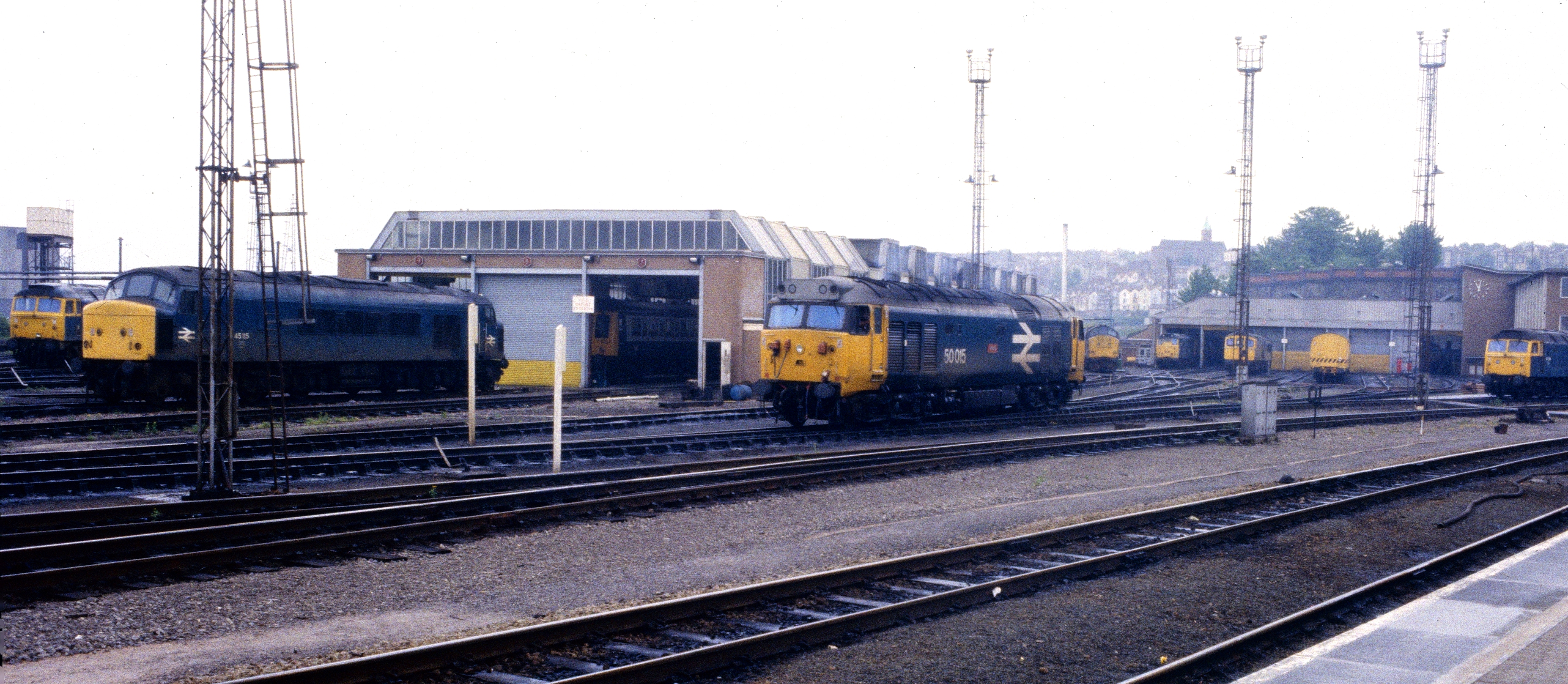 Assorted power at Bristol Bath Road depot in Summer 1984, with Class 45 no.45115 and Class 50 no.50015 identifiable, plus examples of Classes 47, 37, 33 and 31, plus another 'Peak' and a DMU.